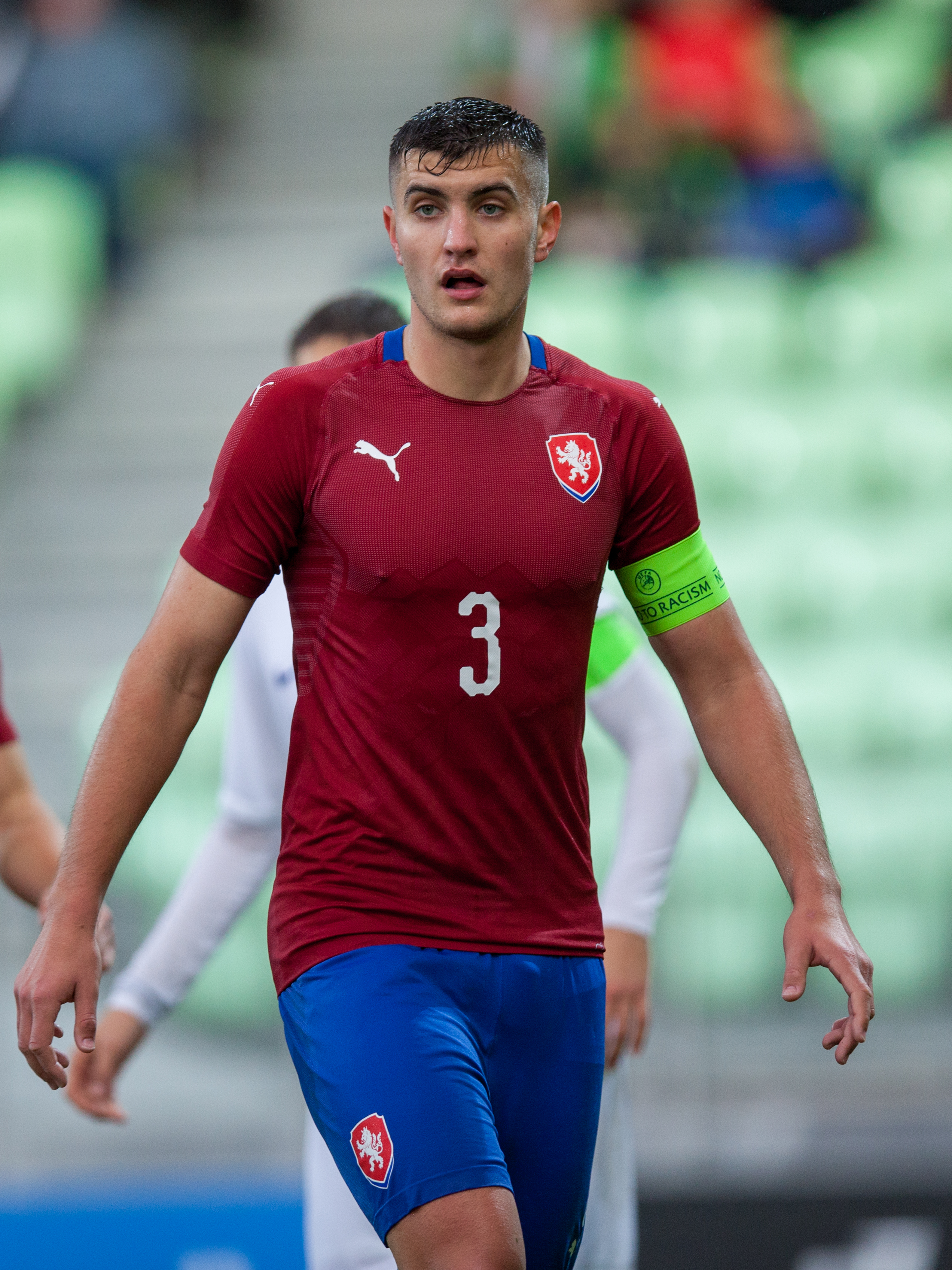 Matěj Chaluš in an internatinoal association football match of European Under-21 Championship Qualifying Round between the Czech Republic and Greece, Městský stadion Karviná, Karviná District, Moravian-Silesian Region, Czechia Personality rights warningAlthough this work is freely licensed or in the public domain, the person(s) shown may have rights that legally restrict certain re-uses unless those depicted consent to such uses. In these cases, a model release or other evidence of consent could protect you from infringement claims.